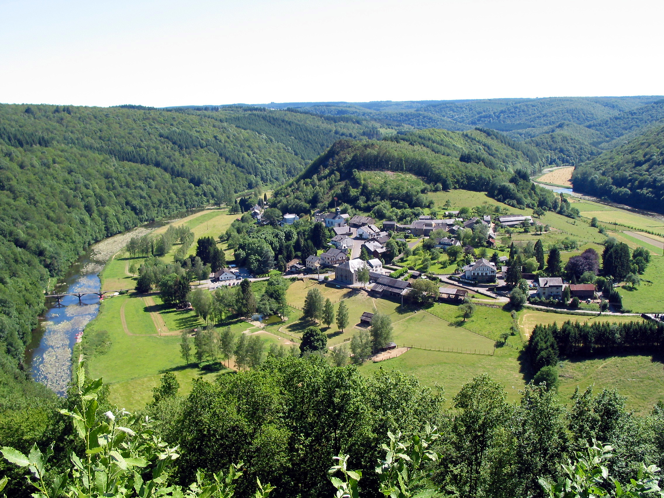 Frahan (Belgium), the Semois river and the village seen from the point of view alongside the Alle road at Rochehaut.